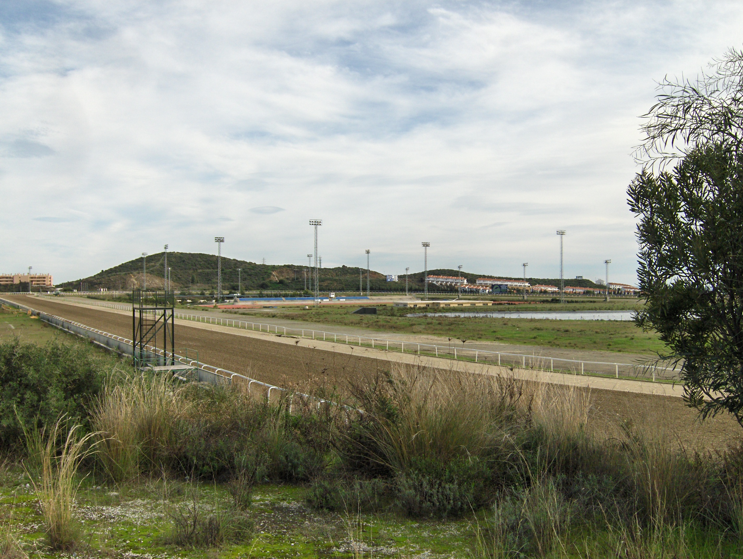 Hipódromo Costa del Sol, Mijas, Spain.